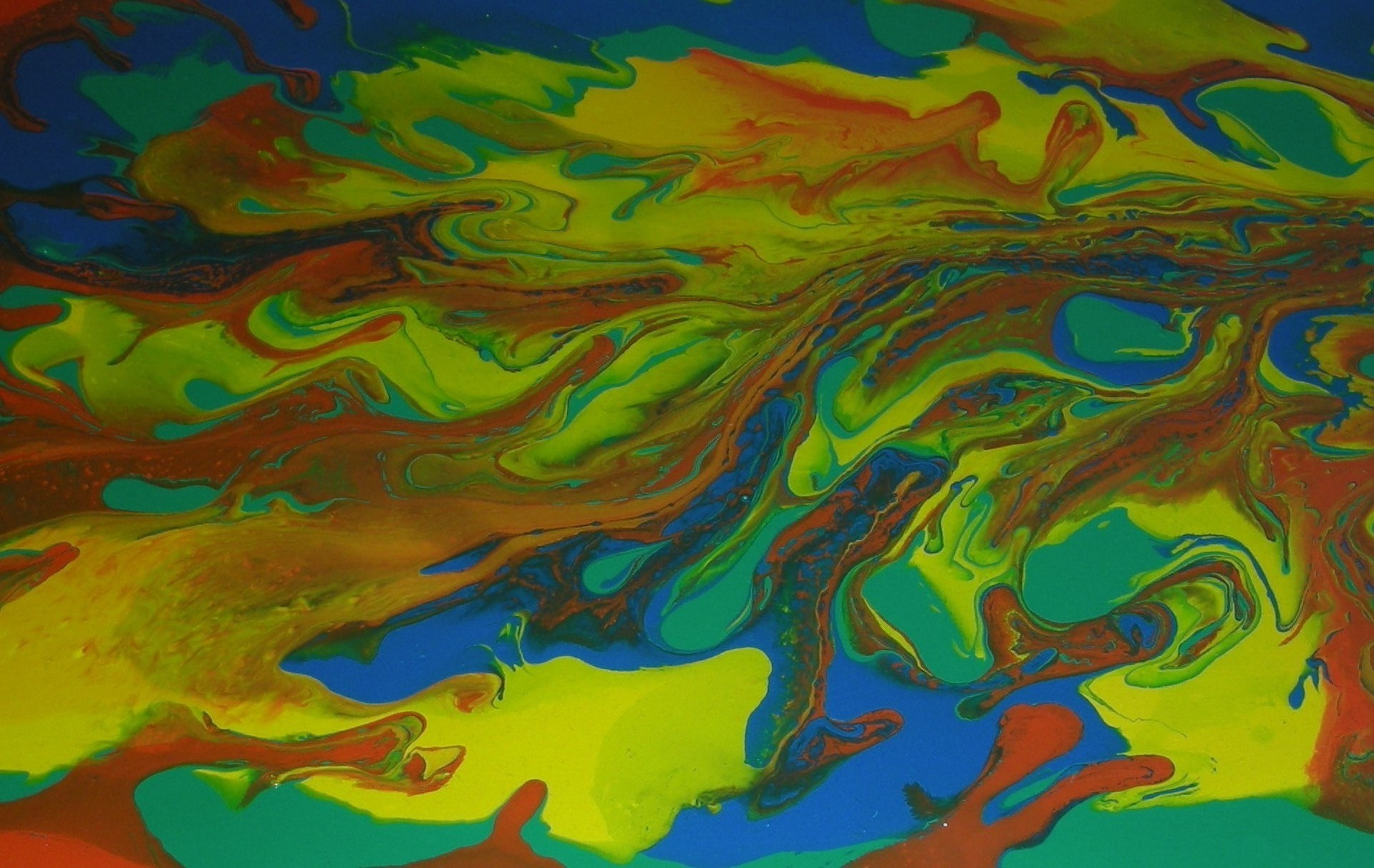 Photograph of one of my paintings